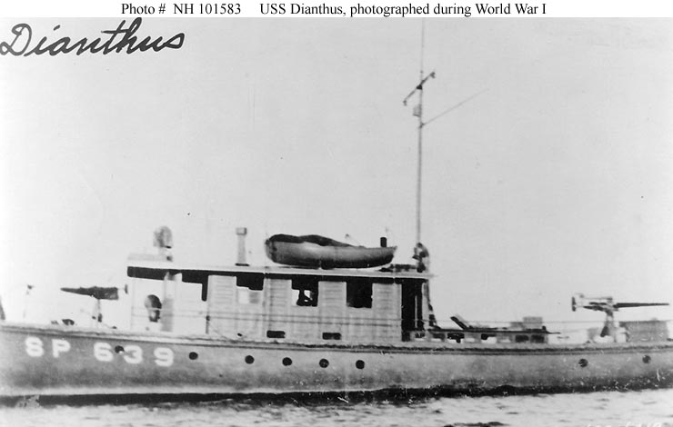 The United States Navy patrol vessel